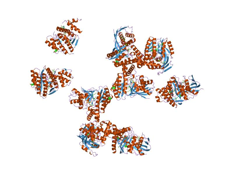 Cartoon representation of the molecular structure of protein registered with 1s4e code.